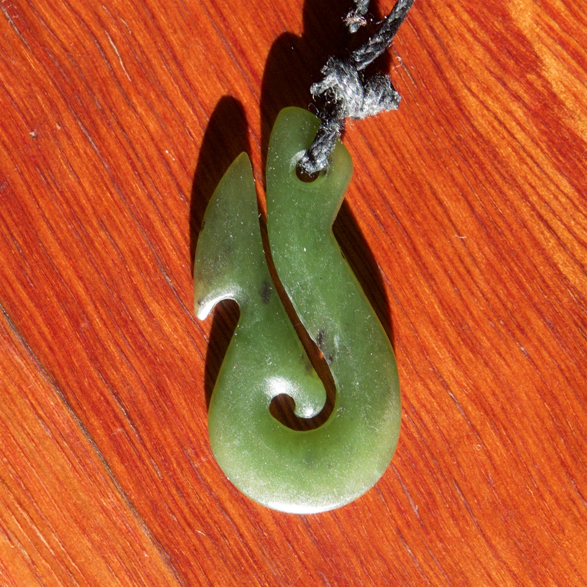 Greenstone Maori Hei Matau